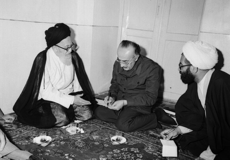 Ahmad Sayyed Javadi meeting with Mohammad Kazem Shariatmadari - 1979